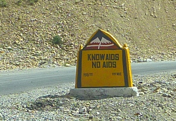 Road sign in Spiti Valley, Himachel Pradesh, India 2010